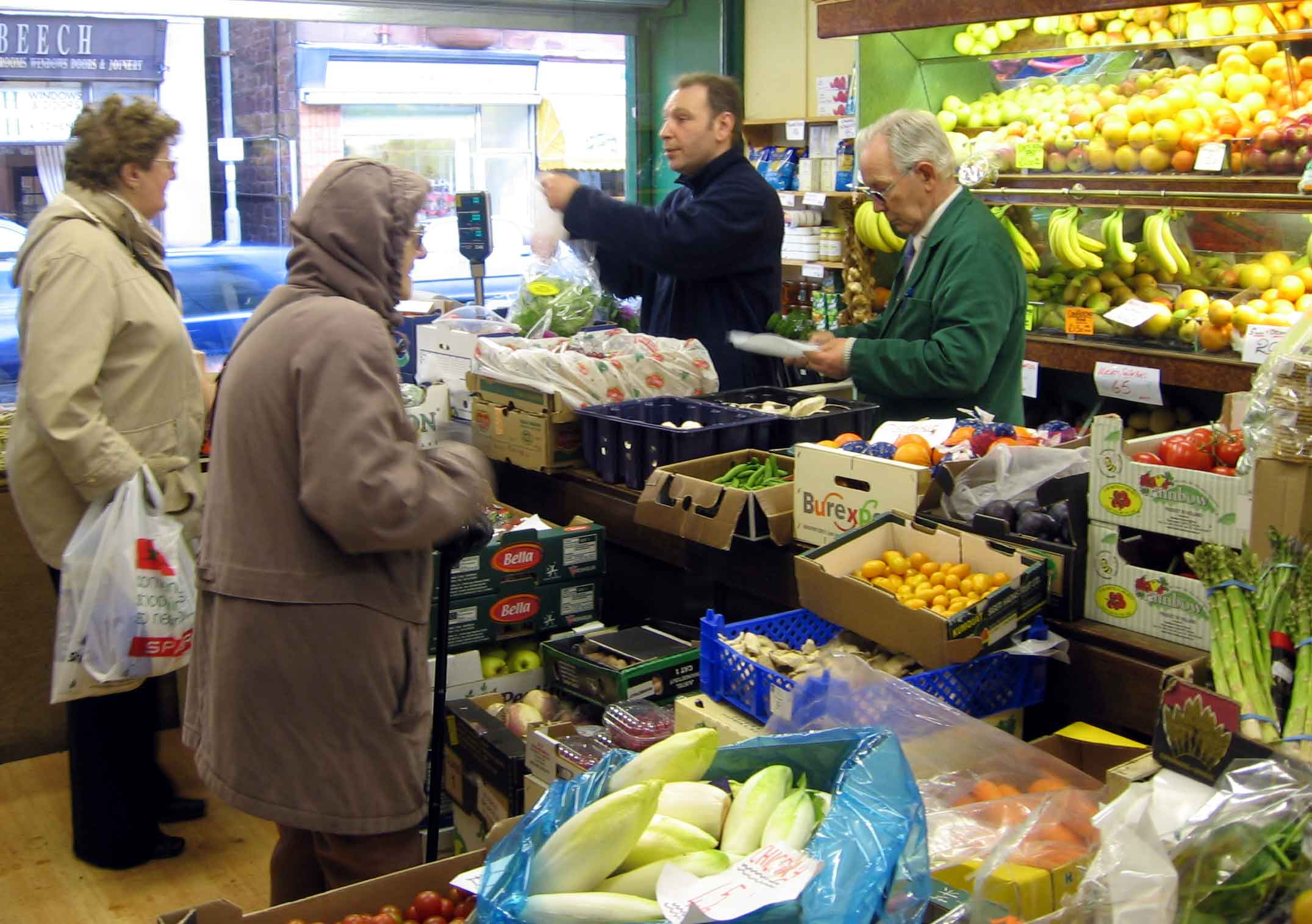 Greengrocer's shop in Gourock, Scotland